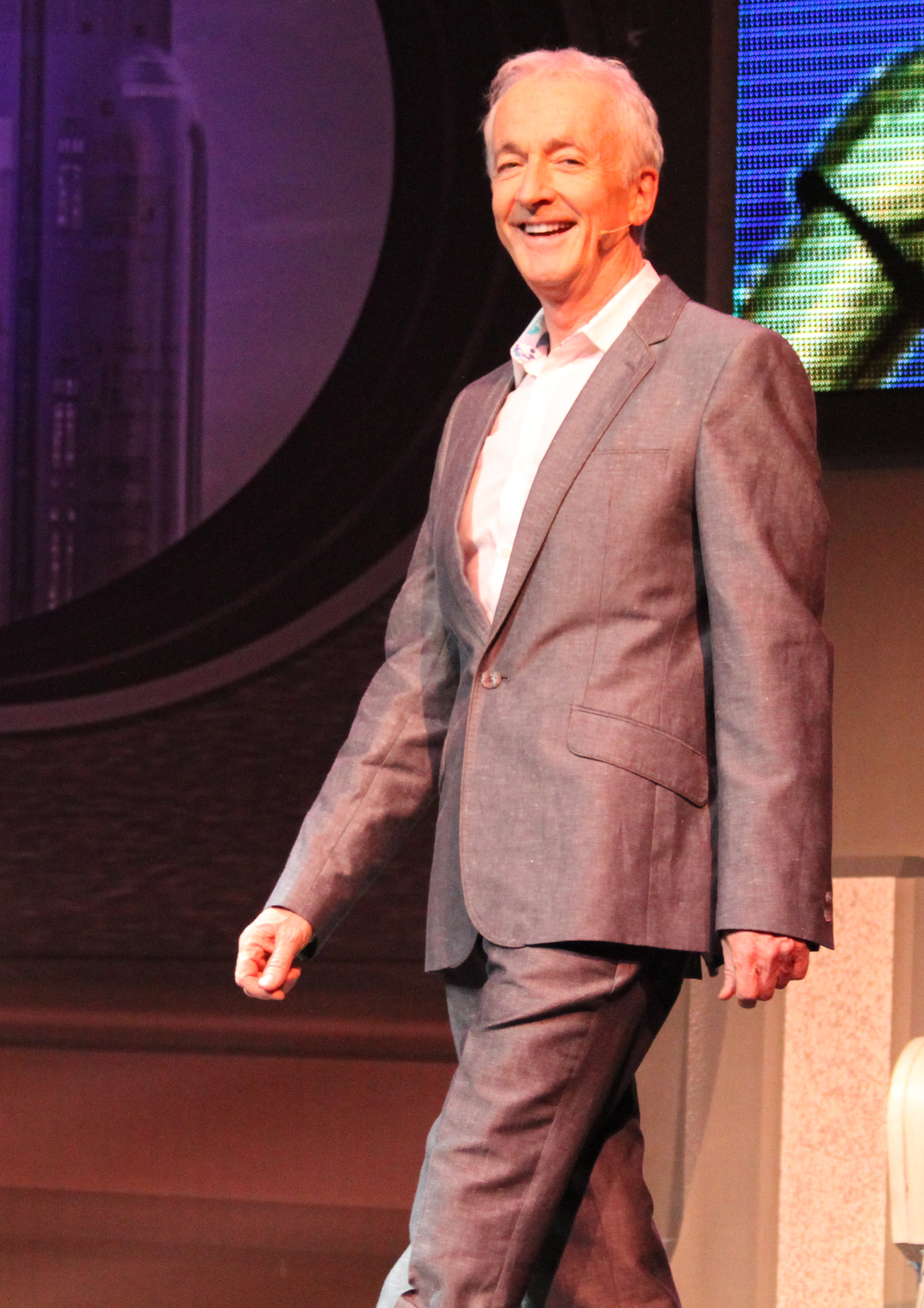 Anthony Daniels attending Star Wars Weekends 2011 at Walt Disney World, Hollywood Studios, Orlando, Florida.